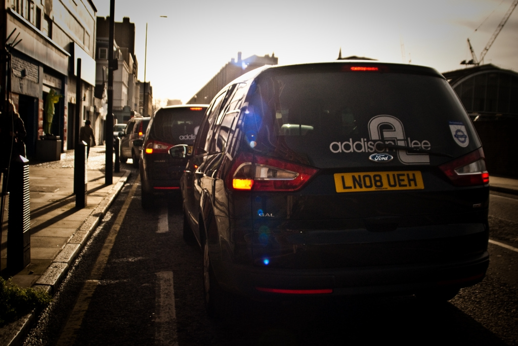 A Ford Galaxy